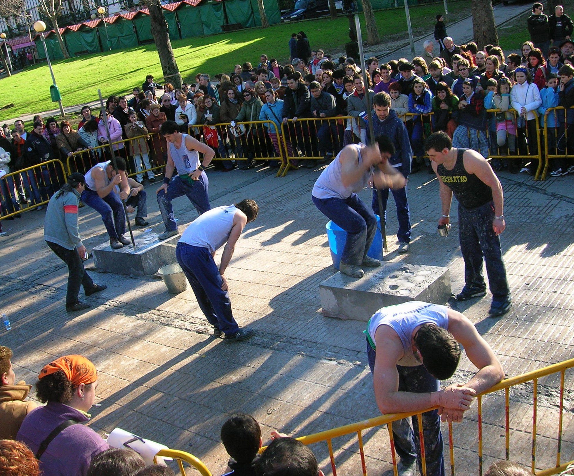 Stone drilling contest. Saint Vincent's fiestas, Barakaldo. Prior to the official competition, this contest was held between two teams of three barrenadors belonging to the same club (Errekatxo).